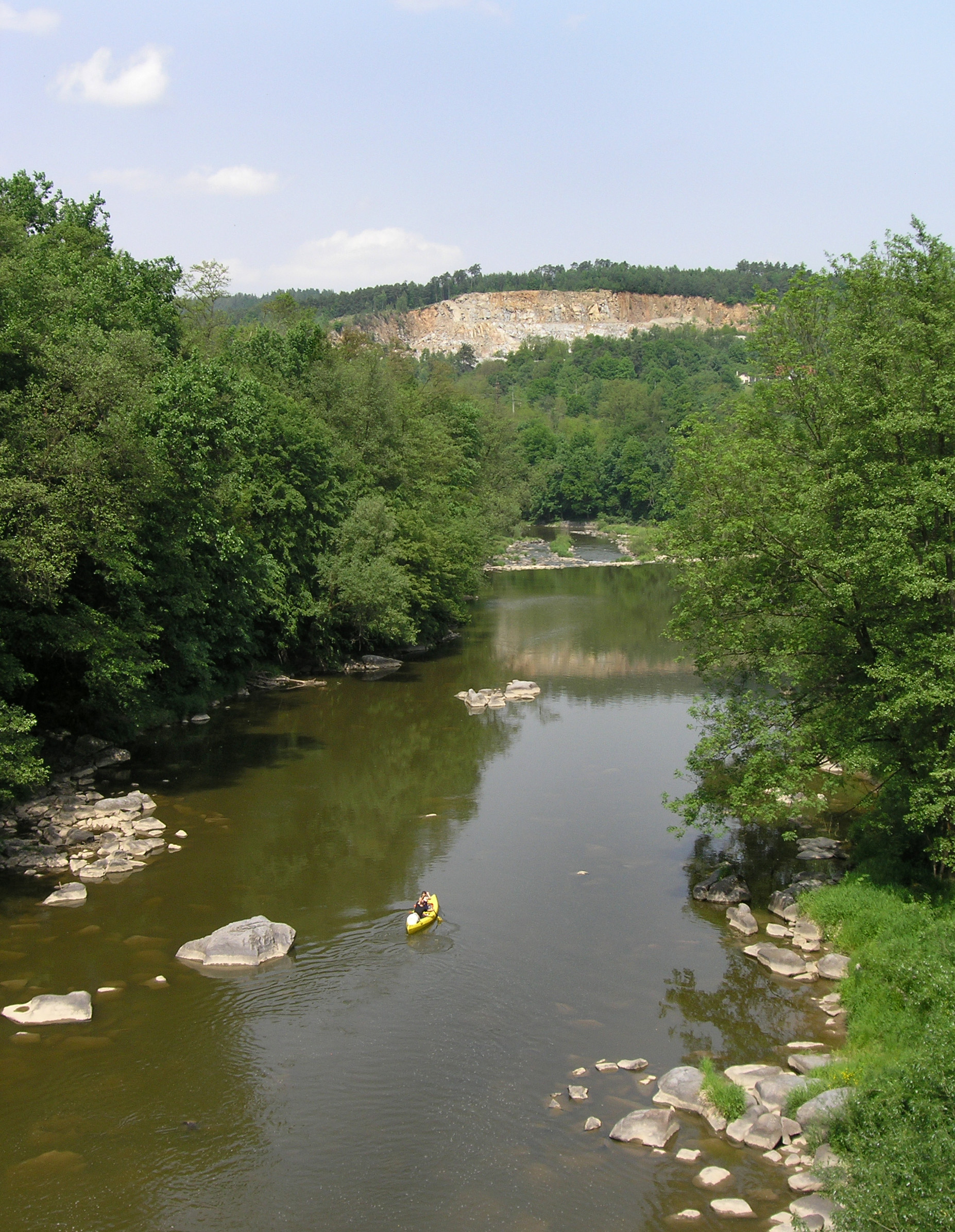 Sázava river in Krhanice, Czech Republic